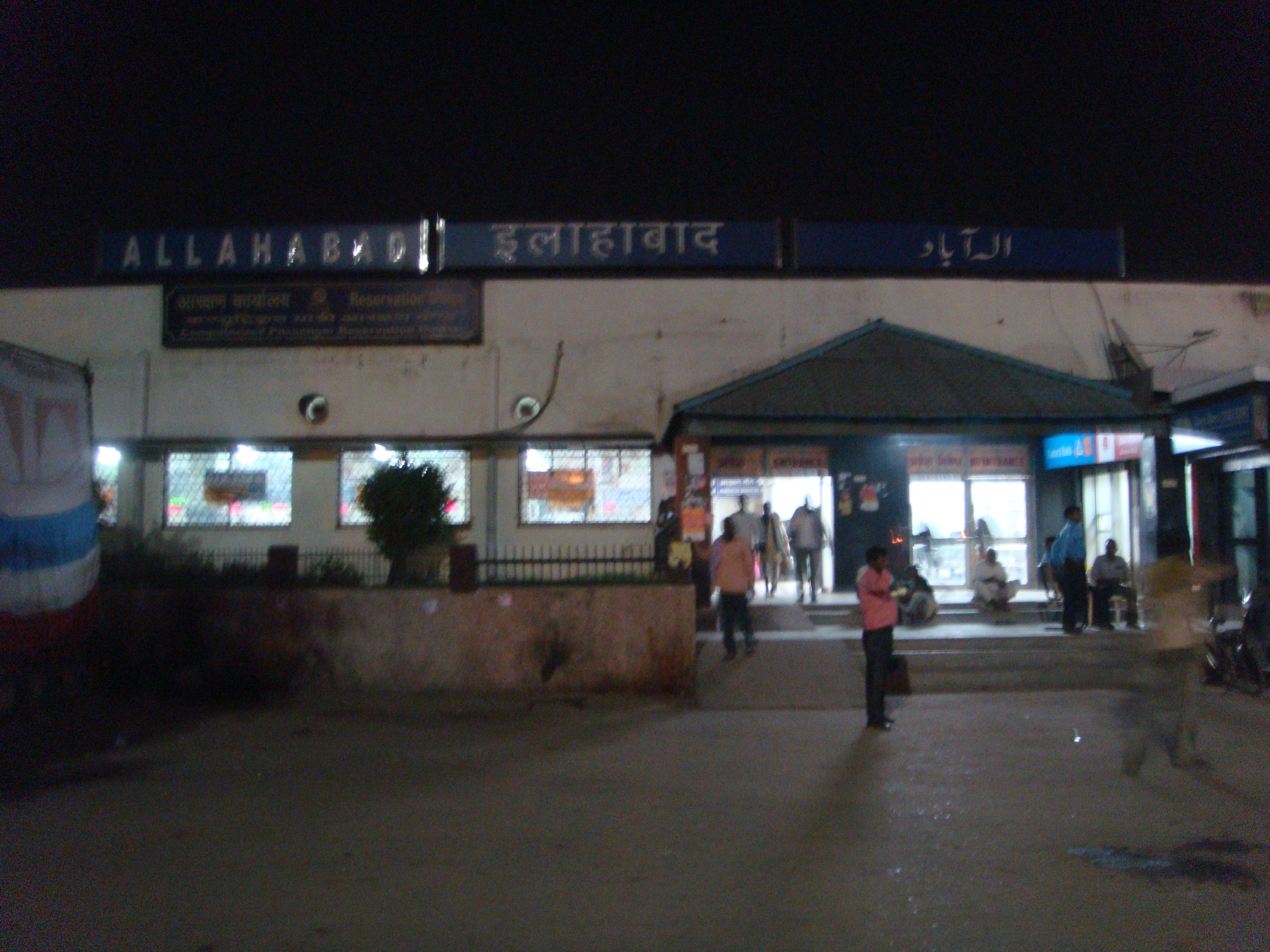 Allahabad Junction Main Entrance